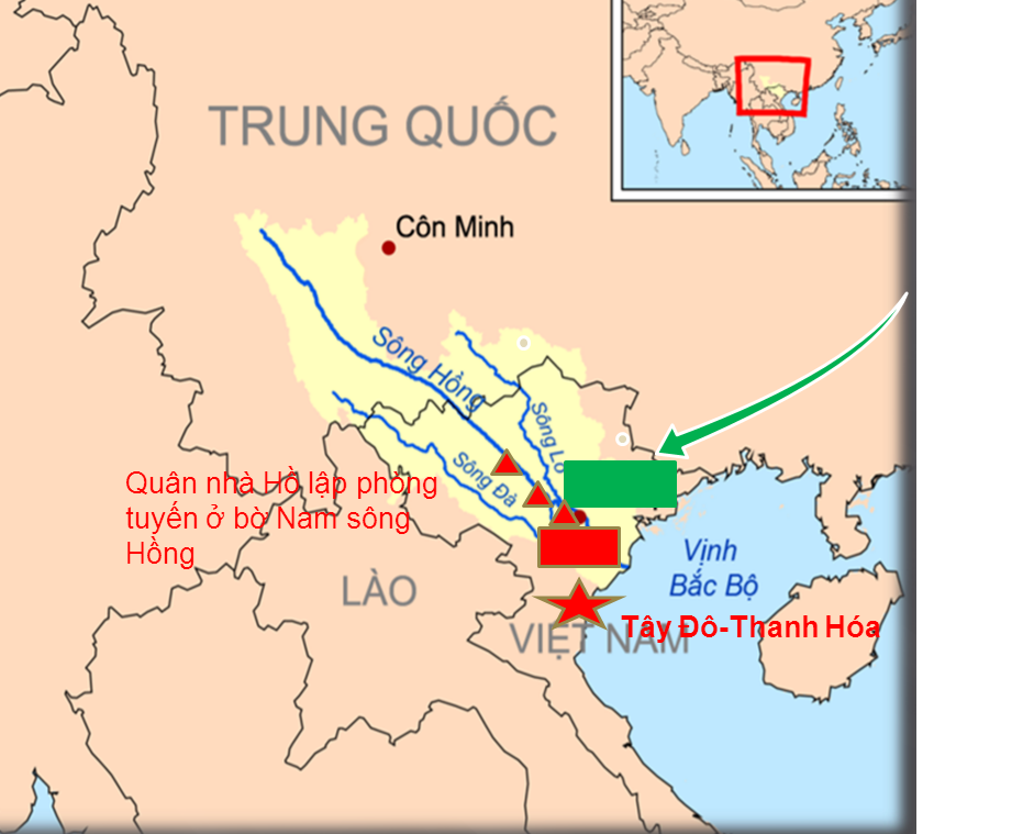 Minh-Dai Ngu firghting